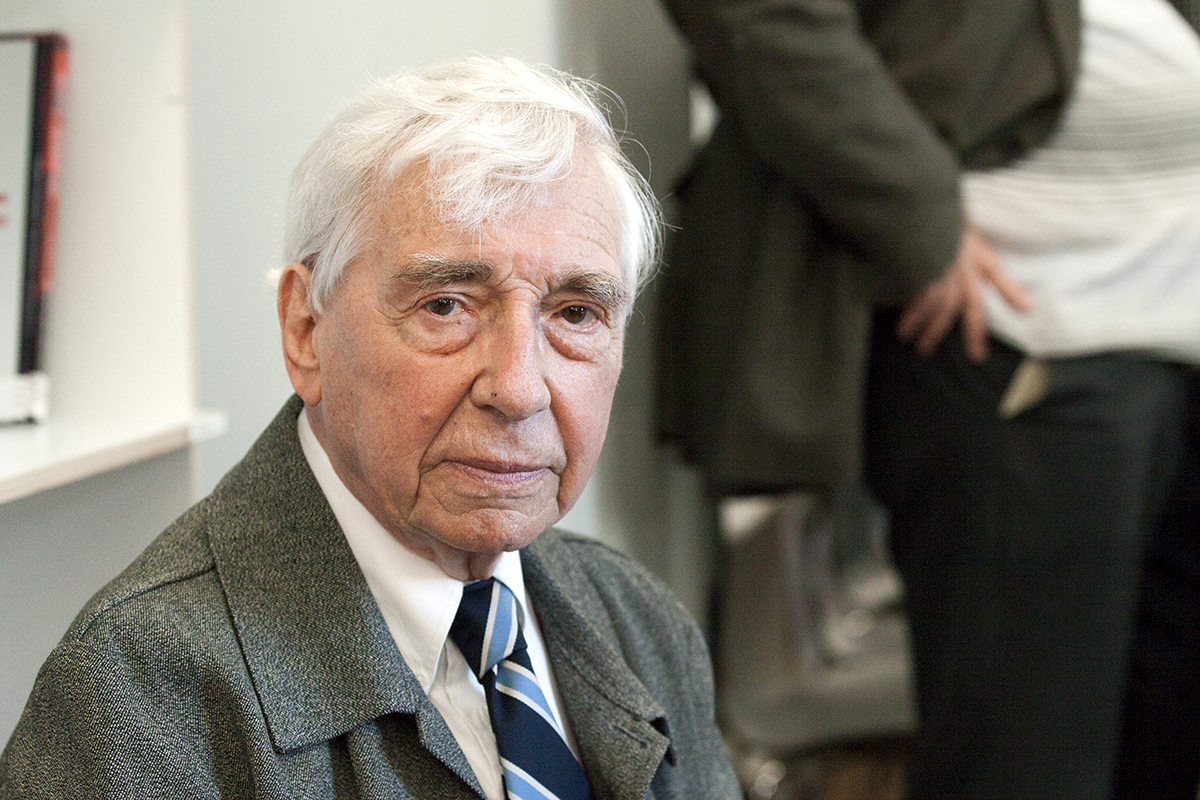 Arno J. Mayer attending the Luxembourg Institute for European and International Studies conference Arno J. Mayer – Critical Junctures in Modern History, 10-11 May 2013, Casino Luxembourg.